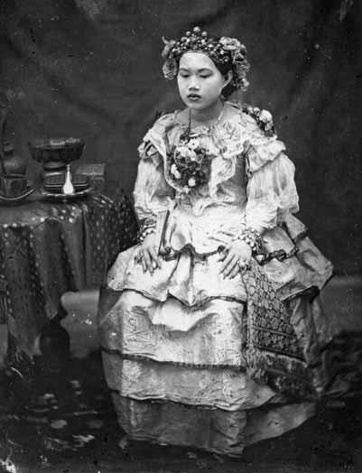 Princess Piyamavadi Sri Bajarindra Mata in 1855